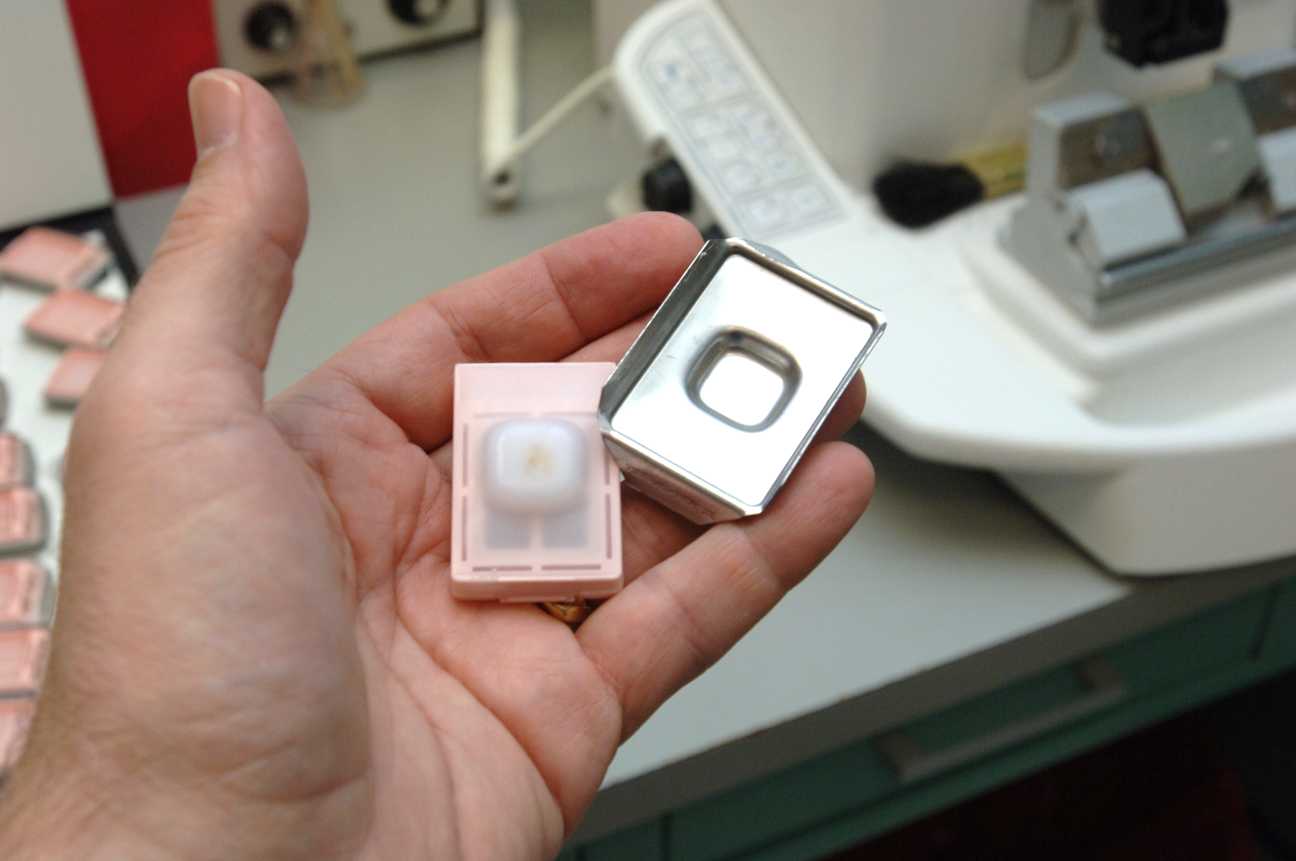 Solidified paraffin block is popped out of the metal mould.